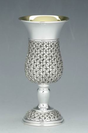 A Silver Kiddush Cup used for Kiddush on the Shabbat and Jewish holiday. This Kiddush Cup was made by Hadad Silver Judaica.